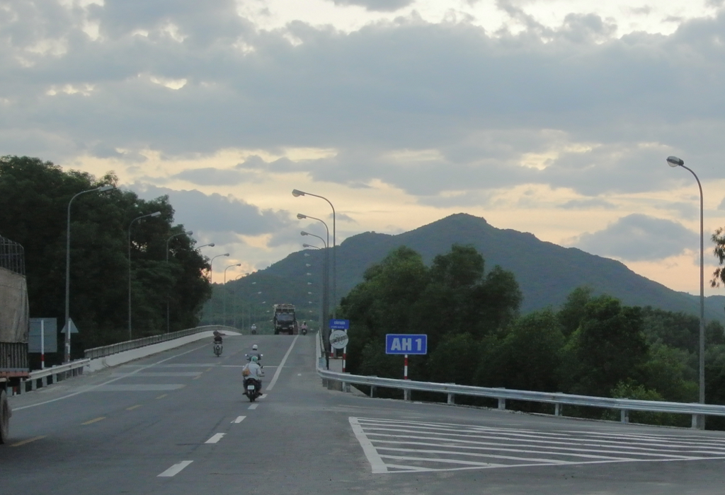 Asia Highway 1 at rural side of Hue Vietnam